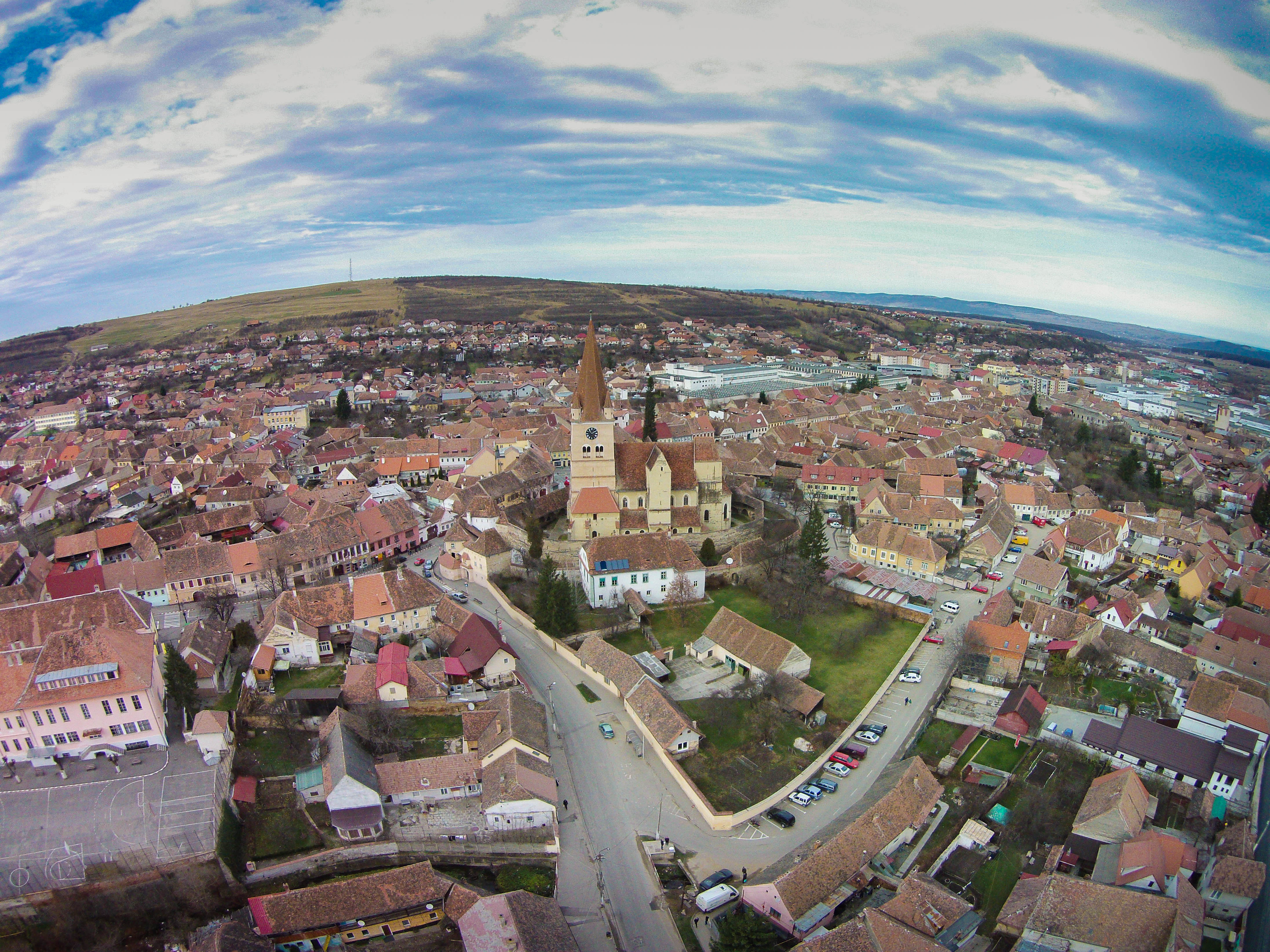 Vedere aeriana a bisericii fortificate din localitatea Cisnadie, judetul Sibiu